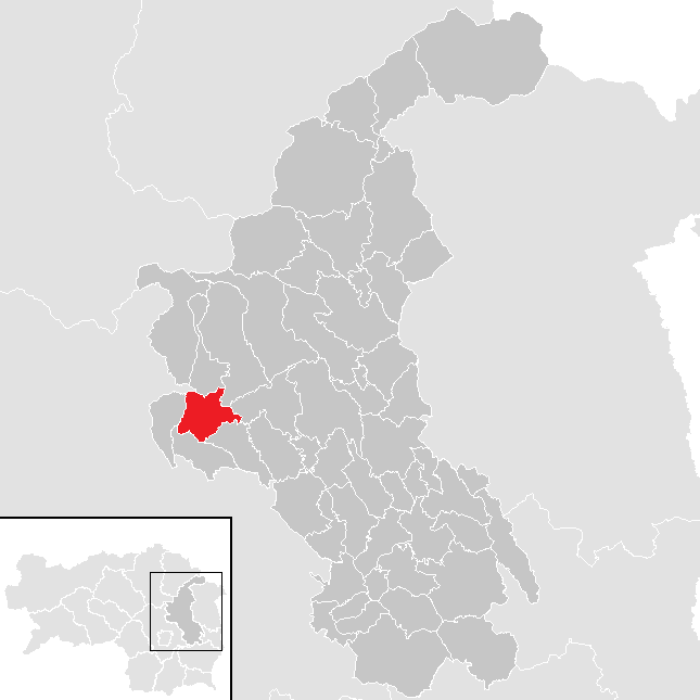 district Weiz